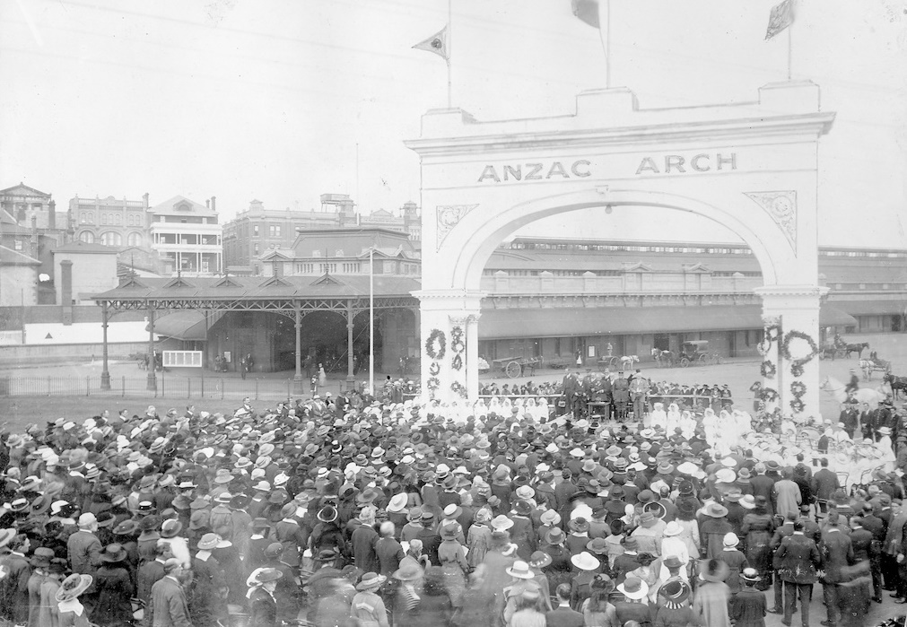 Crowd at Anzac Arch 1919. "Cheer-up Ladies" in white uniforms. Adelaide Railway Station, North Tce. in background